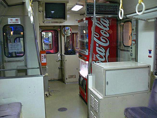 Hokkaido Chihokukogen Railway CR75 Diesel railcar.